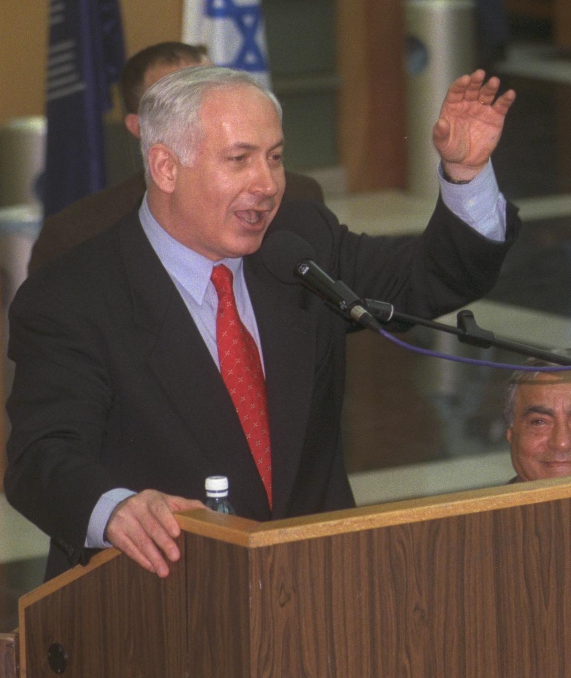 Prime Minister Benjamin Netanyahu giving a speech at the Ramat Gan Diamond Exchange. ביקור רהמ בנימין נתניהו בבורסת היהלומים ברמת גן Photo: Moshe Milner (1946–) Alternative names Miylner, Moše; Milner, Mosheh; Moshé Milner; Milner, M.; Mîlner, Moše; Miylner, MošehDescriptionIsraeli photographerצלם ישראליDate of birth 1946 Location of birth Germany Authority control : Q28750411 VIAF: 100999744 ISNI: 0000 0001 0804 0507 LCCN: n82072104 GND: 115699732 BNF: 15548788n WorldCat creator QS:P170,Q28750411 , 02/09/1999